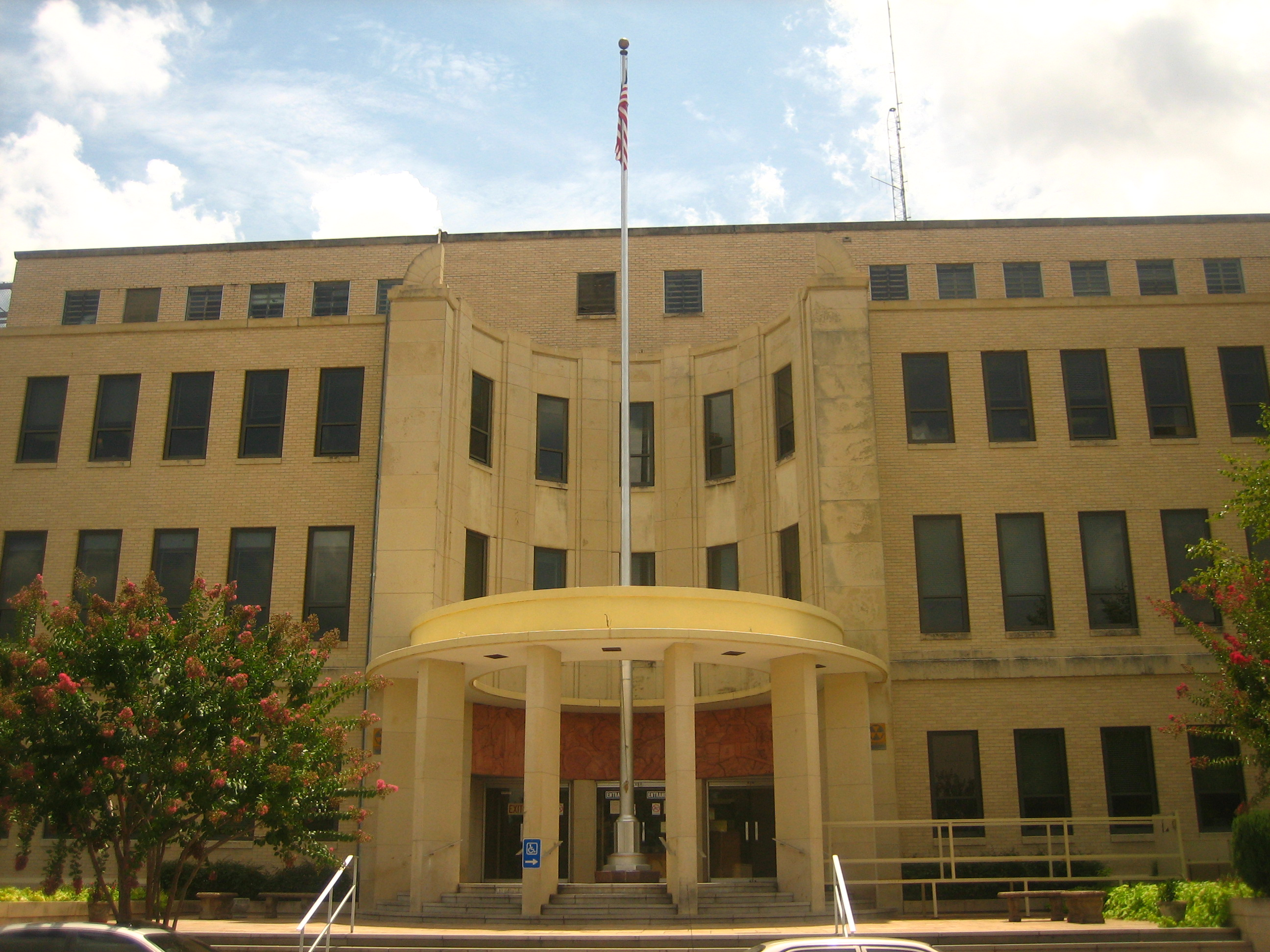 I took photo on Aug. 6, 2008.Billy Hathorn (talk) 19:11, 14 August 2008 (UTC)